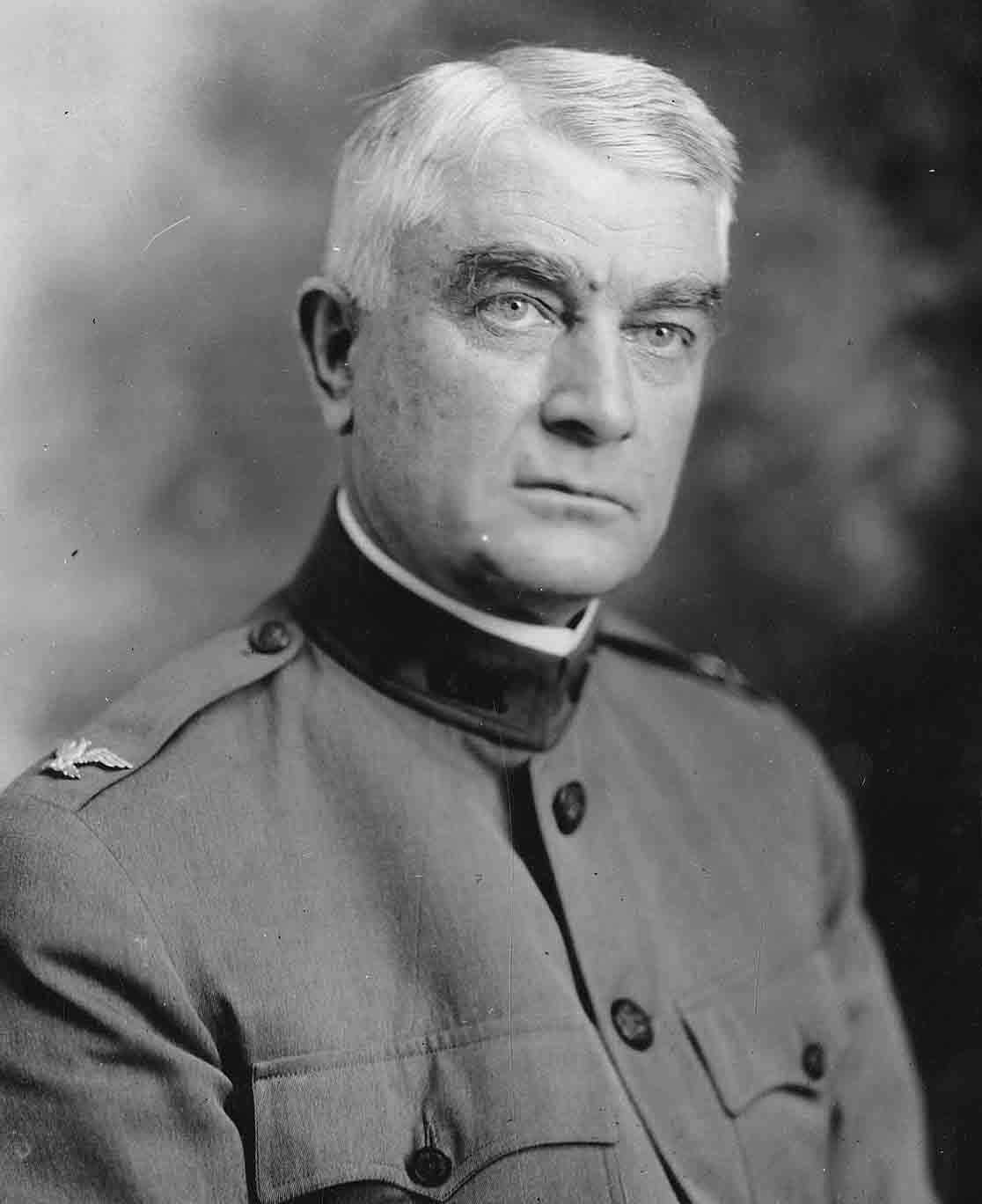 Dr. William James Mayo as a Colonel in the U.S. Army Medical Corps during World War I in 1917